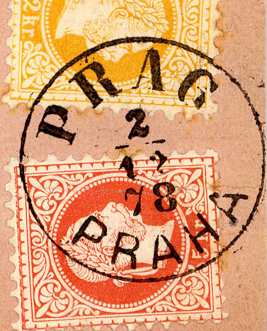 Austrian KK stamps on fragment, 2 and 5 kreuzer issue 1874, bilingual cancelled PRAG-PRAHA in 1878, mixed characters (type Klein agEj)